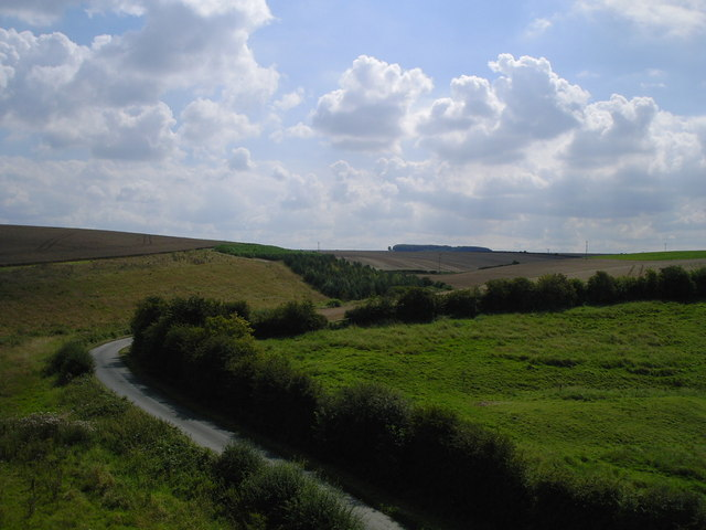 Kiplingcotes Lane, east of Goodmanham, East Riding of Yorkshire, England.Looking at Kiplingcotes Lane from a bridge on the dismantled railway line between York and Beverley. Portions of this line now form parts of sustrans route 66.